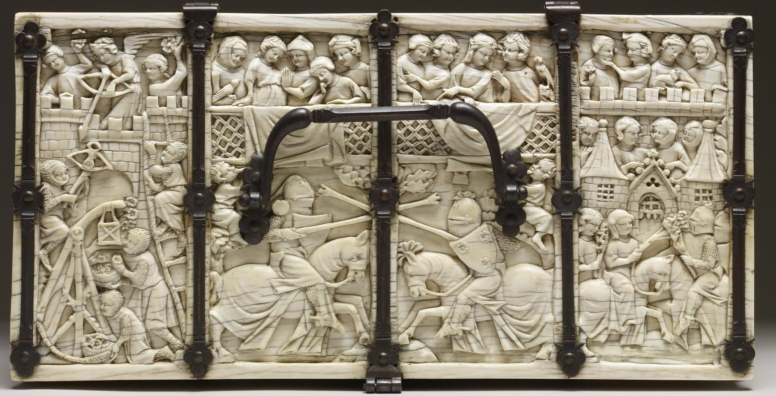 This splendid casket is carved with scenes from romances and allegorical literature representing the courtly ideals of love and heroism. In the center of the lid, knights joust as ladies watch from the balcony; to the left, knights lay siege to the Castle of Love, the subject of an allegorical battle. The remaining scenes on the casket are drawn from well-known stories about Aristotle and Phyllis, Tristan and Iseult, and tales of the gallant, heroic deeds of Gawain, Galahad, and Lancelot. The box may originally have been a courtship gift.